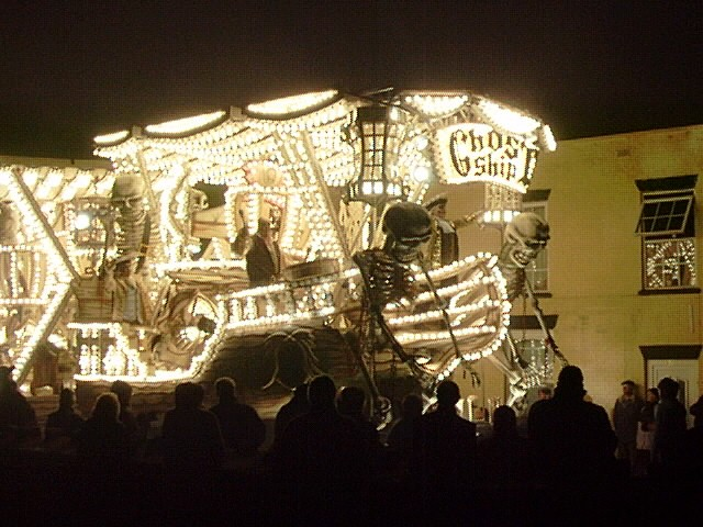 Front of "Ghost Ship (Deliver Us)" by Gremlins CC, Burnham on Sea Carnival 2006